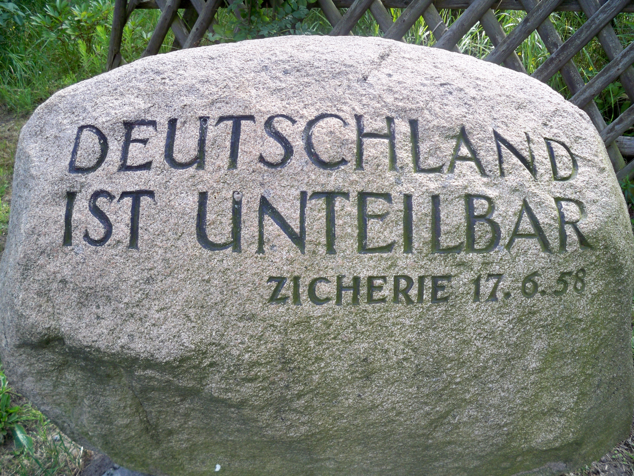 Zicherie, Lower Saxony, Stone promoting German unity